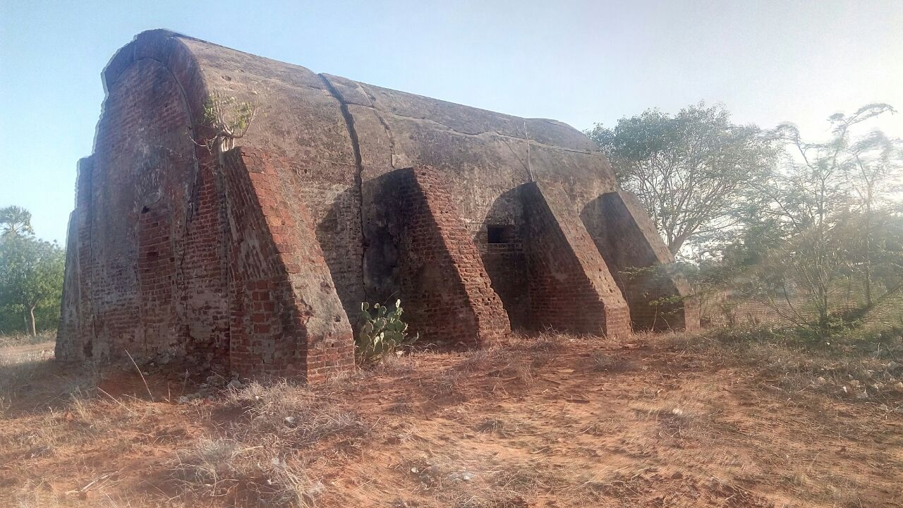 செட்டிகுளத்தின் கிழக்குப் பகுதியில் அமைந்துள்ளது.